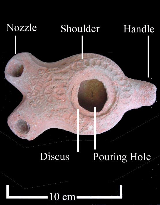 Double-nozzled oil lamp with labels showing lamp anatomy. This lamp was found in Samaria in the village Fandaqomiyah (Pentacomia). Image by Thameen Darby